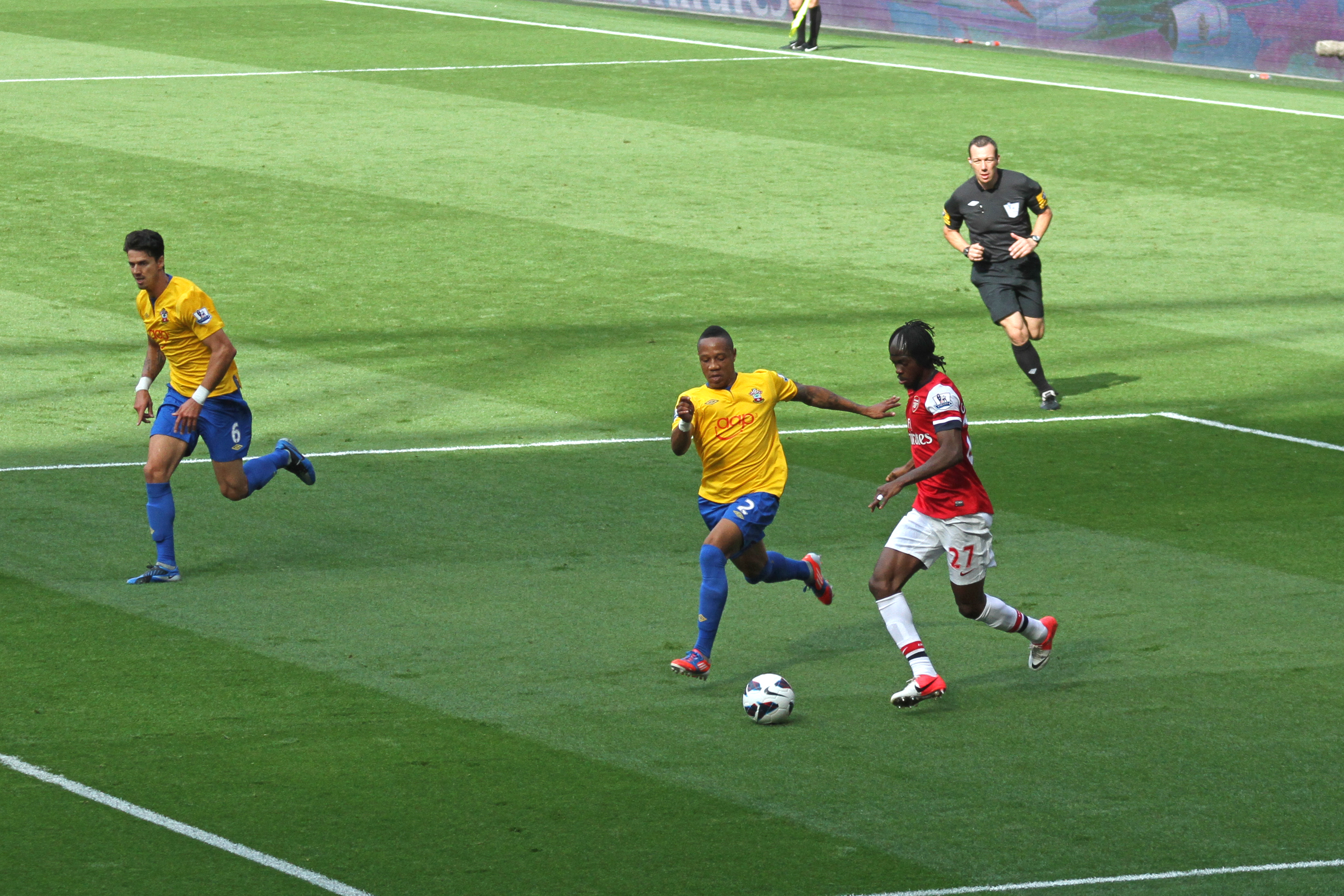 Gervinho defended by Nathaniel Clyne